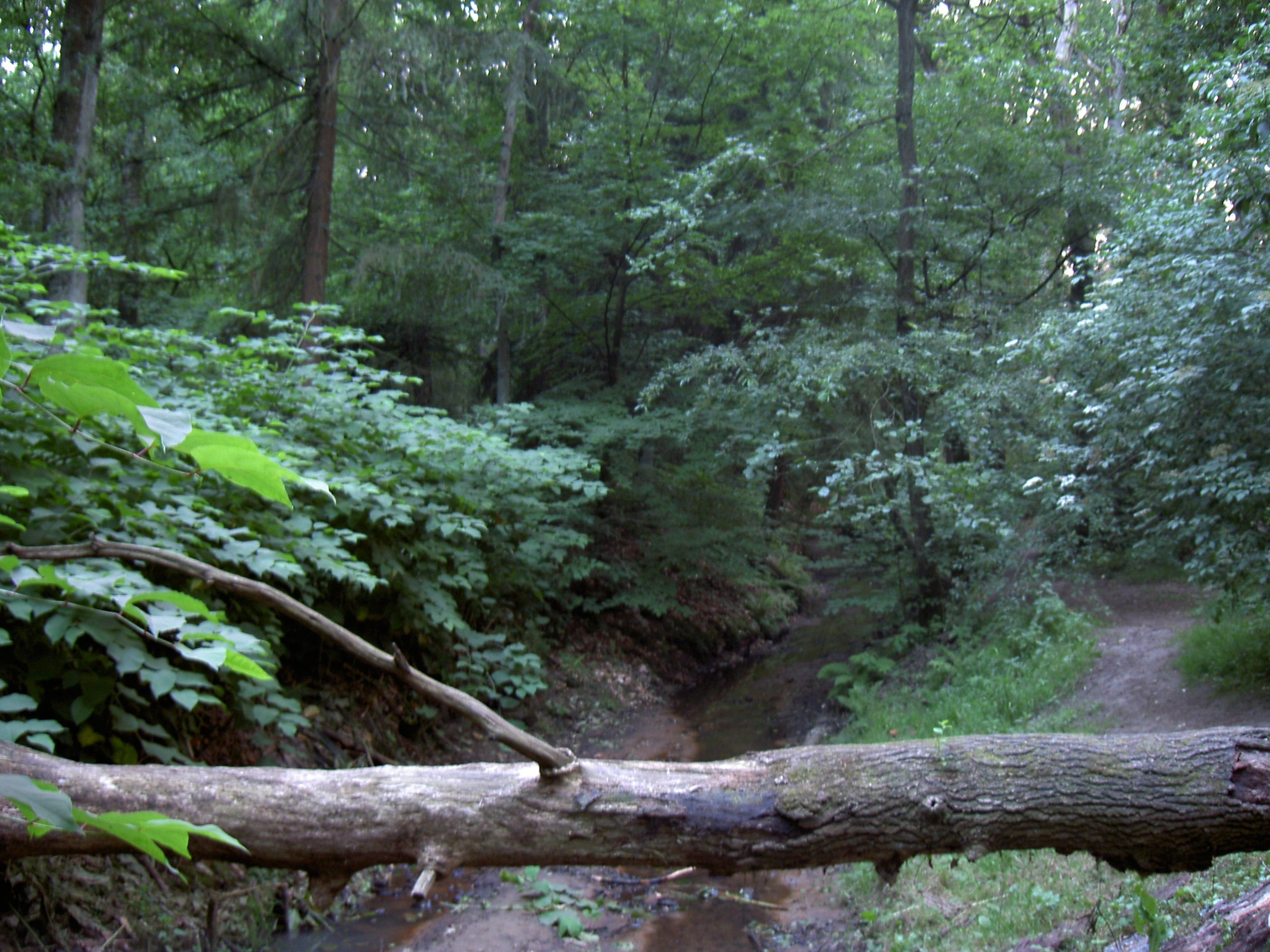 The Eschbeek near the University of Twente. A small brooklet, almost dried up because of the hot weather. The picture has been taken on the 'Wiedicksbeekweg' by myself.